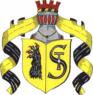 Coat of Arms of Steyerberg First upload in de-wp: Jeriko (11:23, 15. Okt. 2005 - Bild:Wappen steyerberg.jpg)